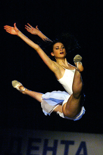 Photograph of rhythmic gymnast Tamara Yerofeeva of Ukraine performing gala exhibition at Deriugina Cup on March 16, 2003 at Kiev, Ukraine. Photo taken by Tom Theobald and released into the public domain. Template:Tamara Yerofeeva, Ukrainian rhythmic gymnast, split leaping, gala exhibition, Deriugina Cup